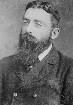 Portrait of John Sheehan